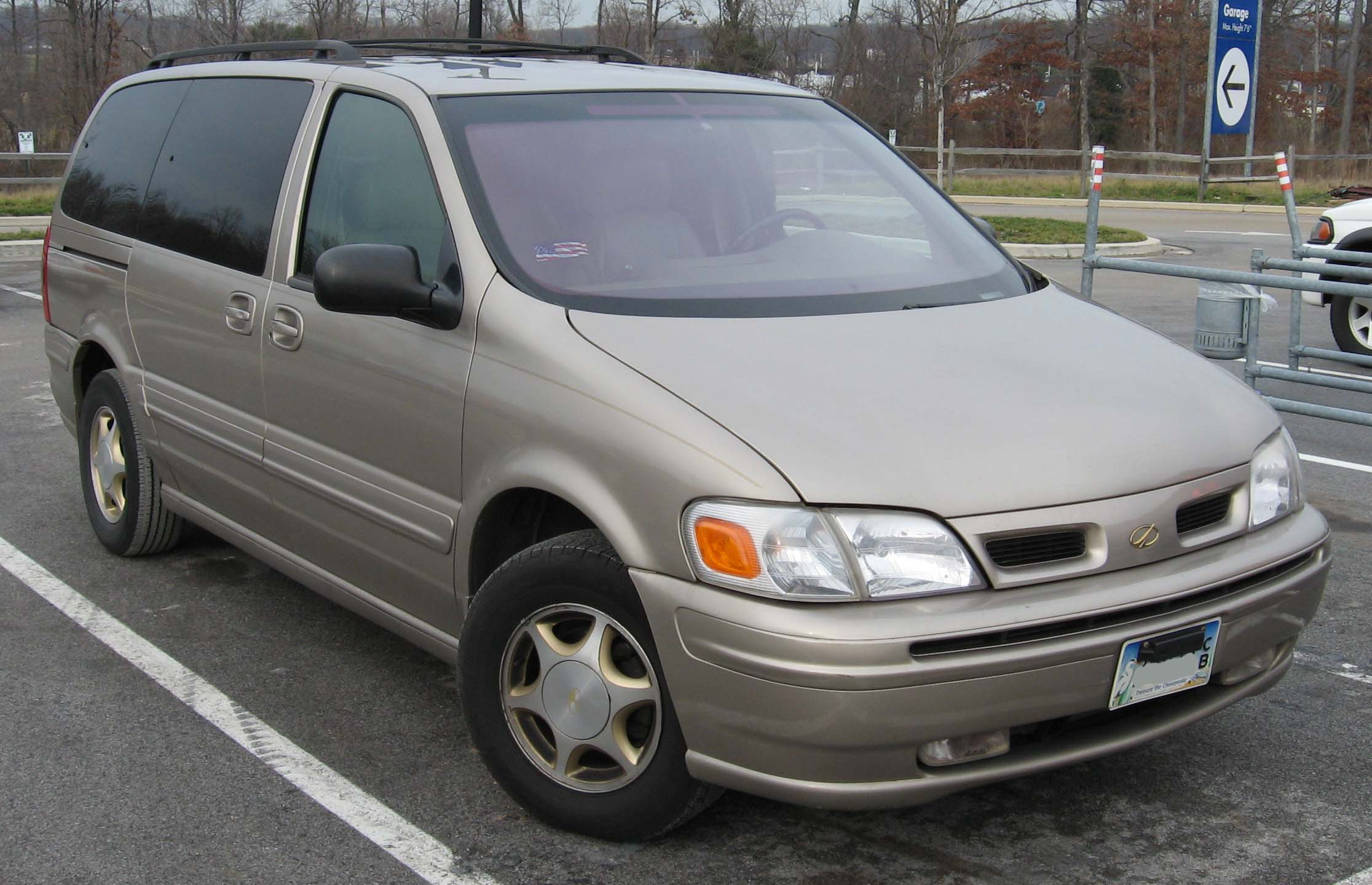 1997-2000 Oldsmobile Silhouette photographed in USA.